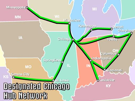 Map of Chicago Hub Network, a federally designated high speed rail corridor.